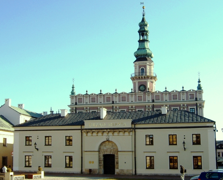 Town council of Zamość in former guardroom and prison tacked onto the town hall from north side (Salt Market)